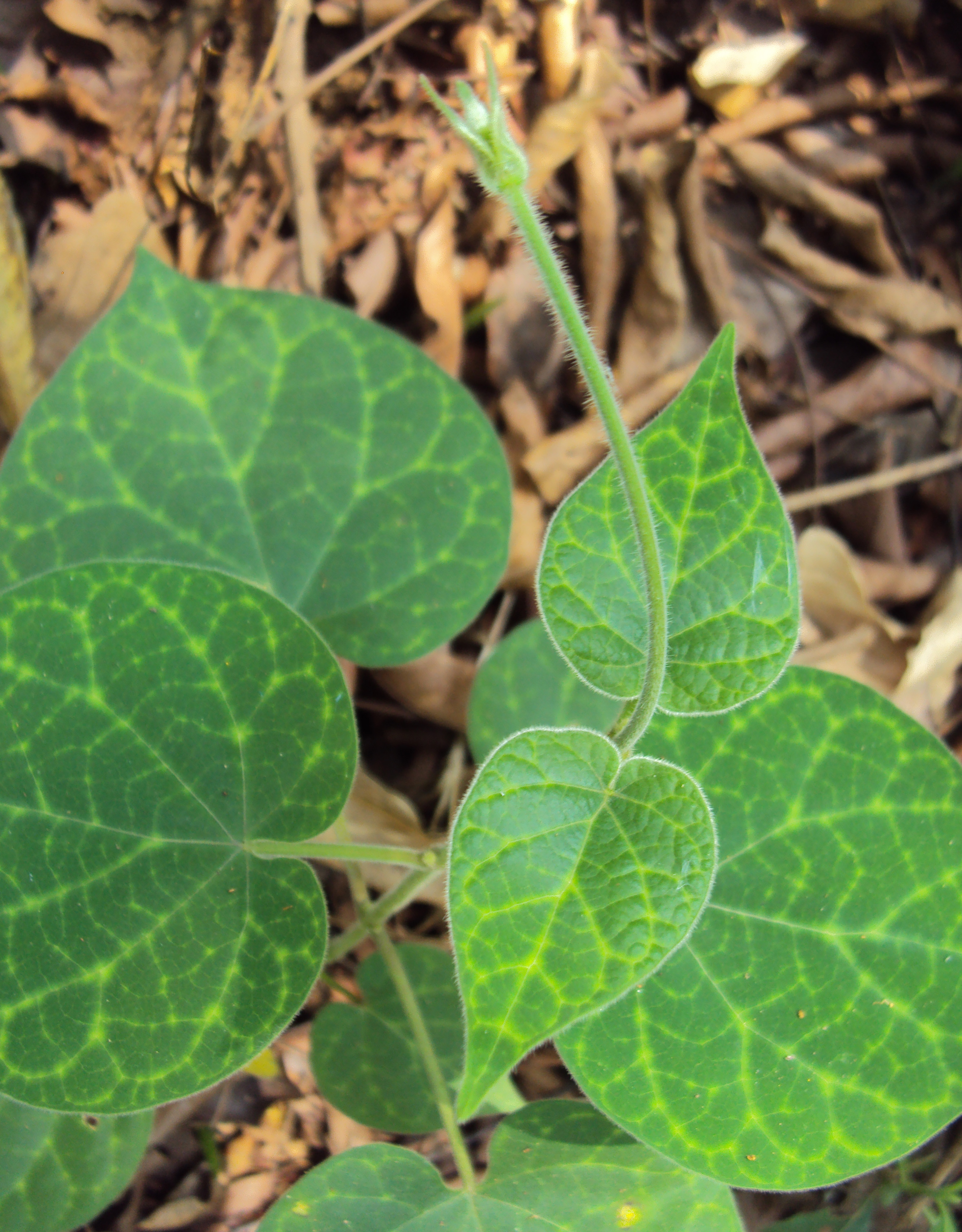 Telosma pallida